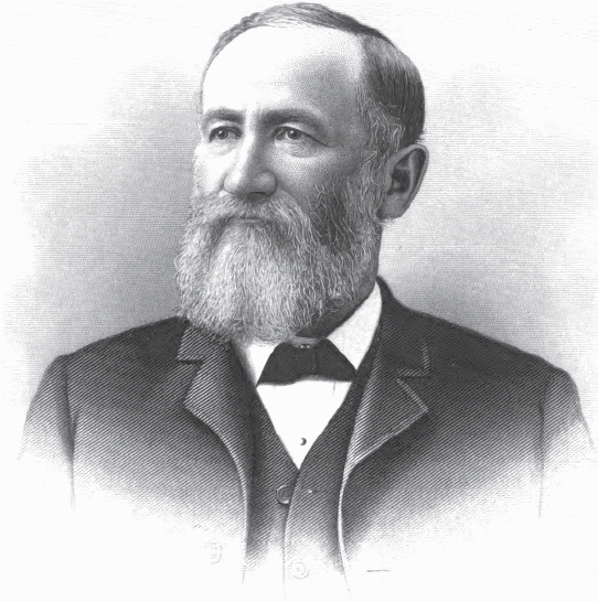 Samuel Thomas Hauser(1833-01-10 – 1914-11-10) 7th Governor of the Montana Territory (1885 to 1887).